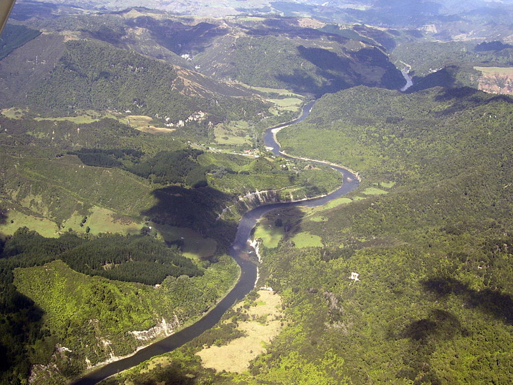 Whanganui River view from 2,500 ft